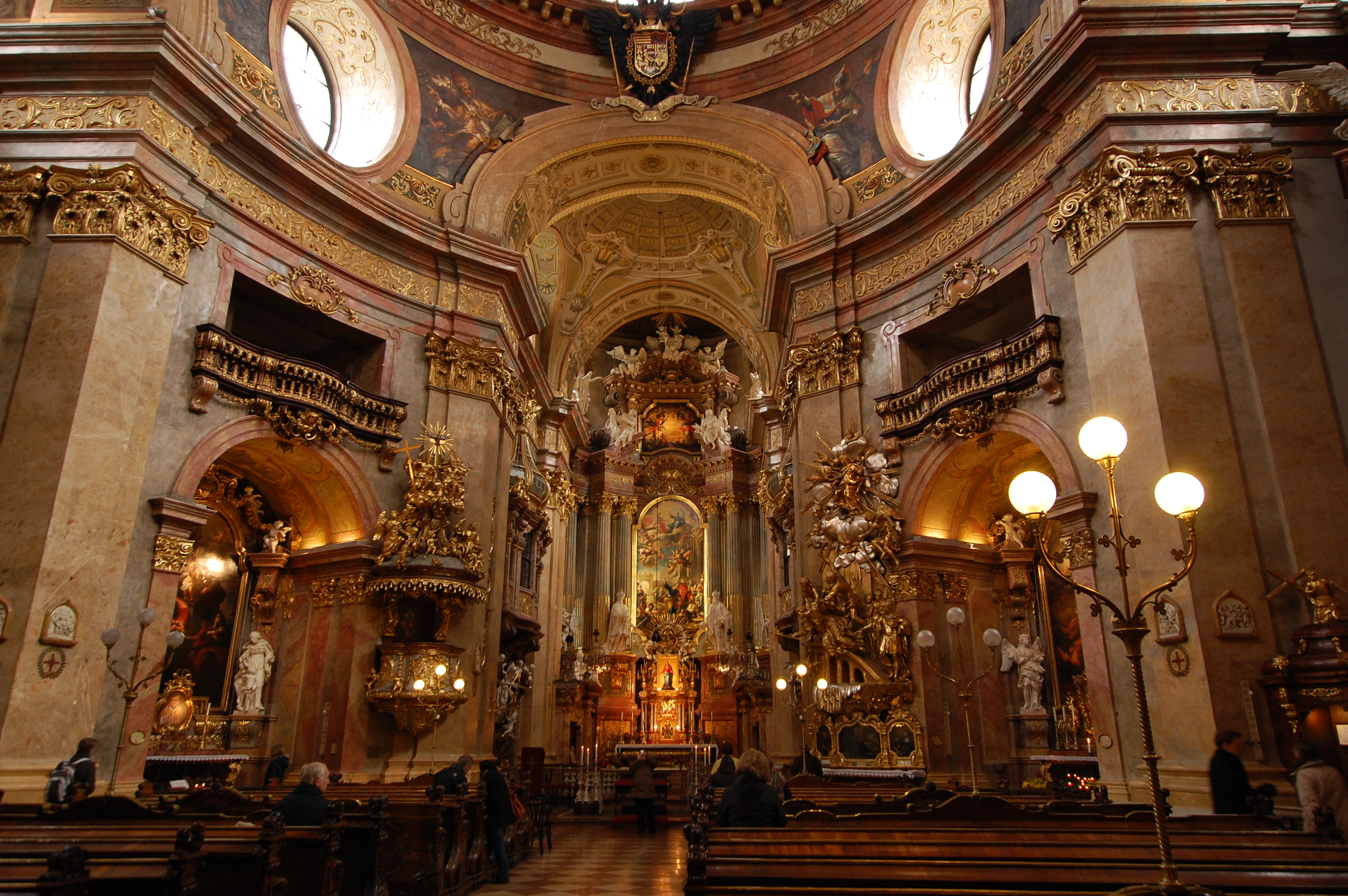 Peterskirche church